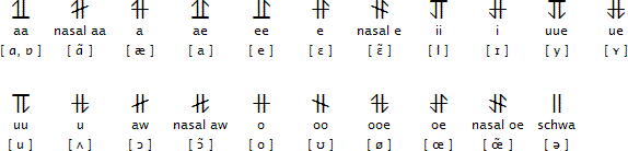 Ewellic alphabet - vowels with phonetic transcription. - Omniglot: All vowels have two vertical strokes.